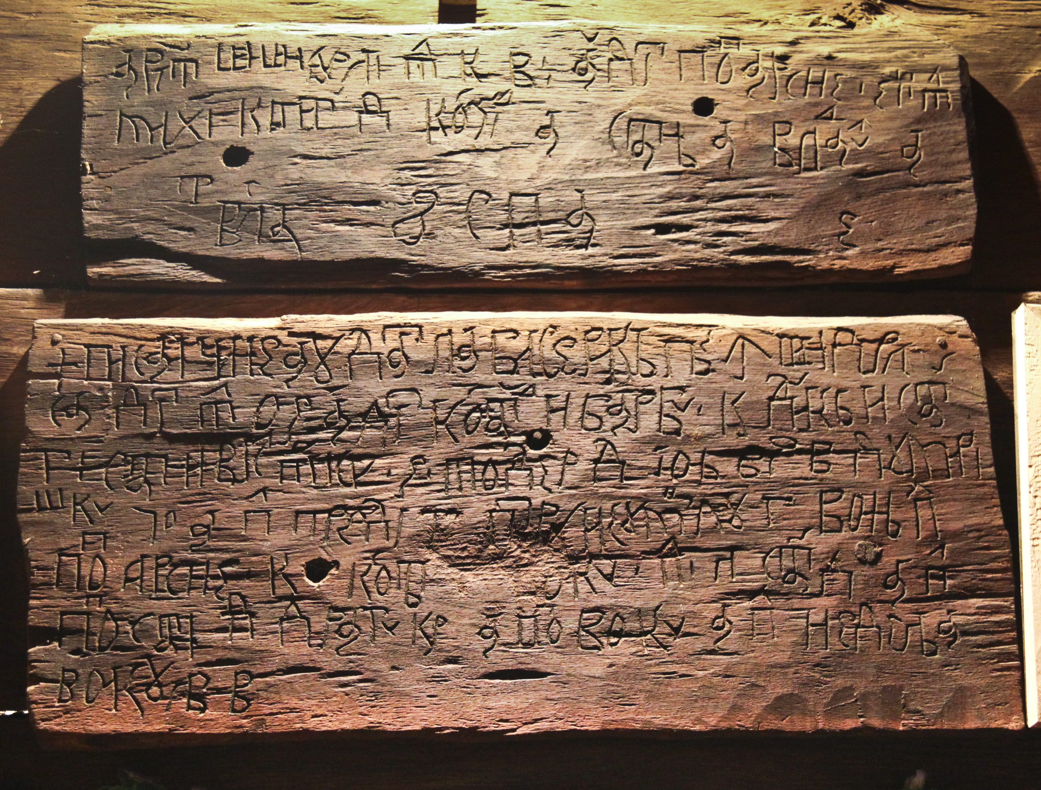 Wooden church in Teleşti, Argeş county, Romania.